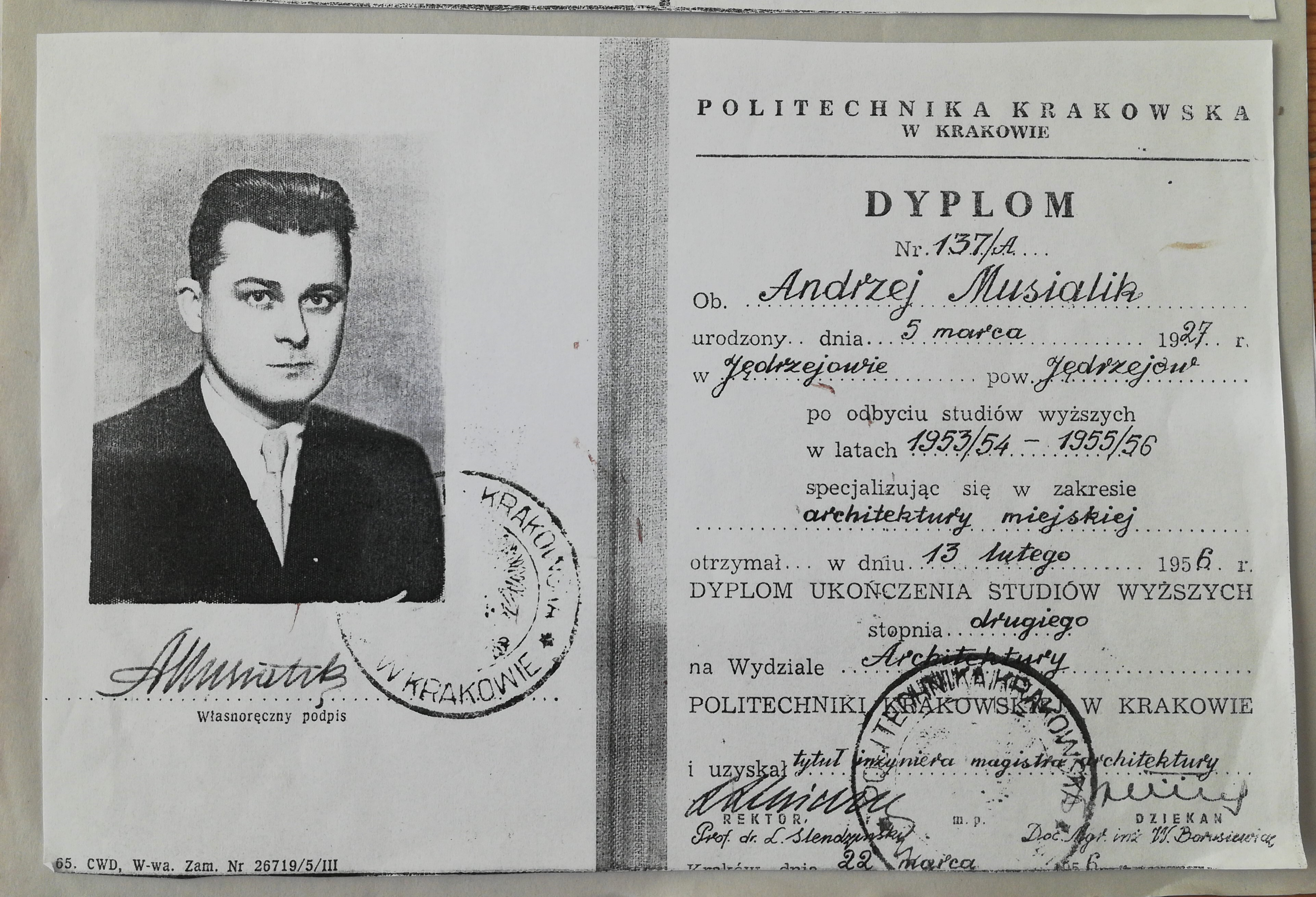 architect Andrzej Musialik - diploma of completion of second-cycle studies, Cracow University of Technology, 1956.